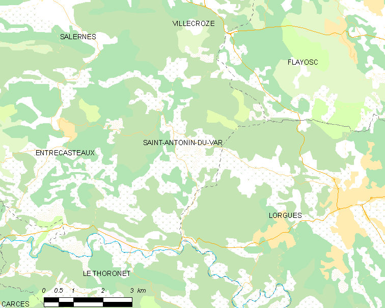 Map of French municipality Saint-Antonin-du-Var